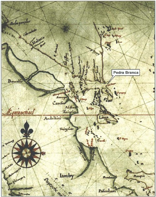 Detail of a "Map of Sumatra" showing the island of "Pedrablanca" (Pedra Branca) by Hessel Gerritz, a cartographer of the Hydrographic Service of the Dutch East India Company: see Case Concerning Sovereignty over Pedra Branca/Pulau Batu Puteh, Middle Rocks and South Ledge (Malaysia/Singapore): Memorial of Malaysia, vol. 1, p. 137, para. 306.